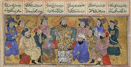 "Buzurgmihr Masters the Game of Chess", Folio from a Shahnama (Book of Kings)